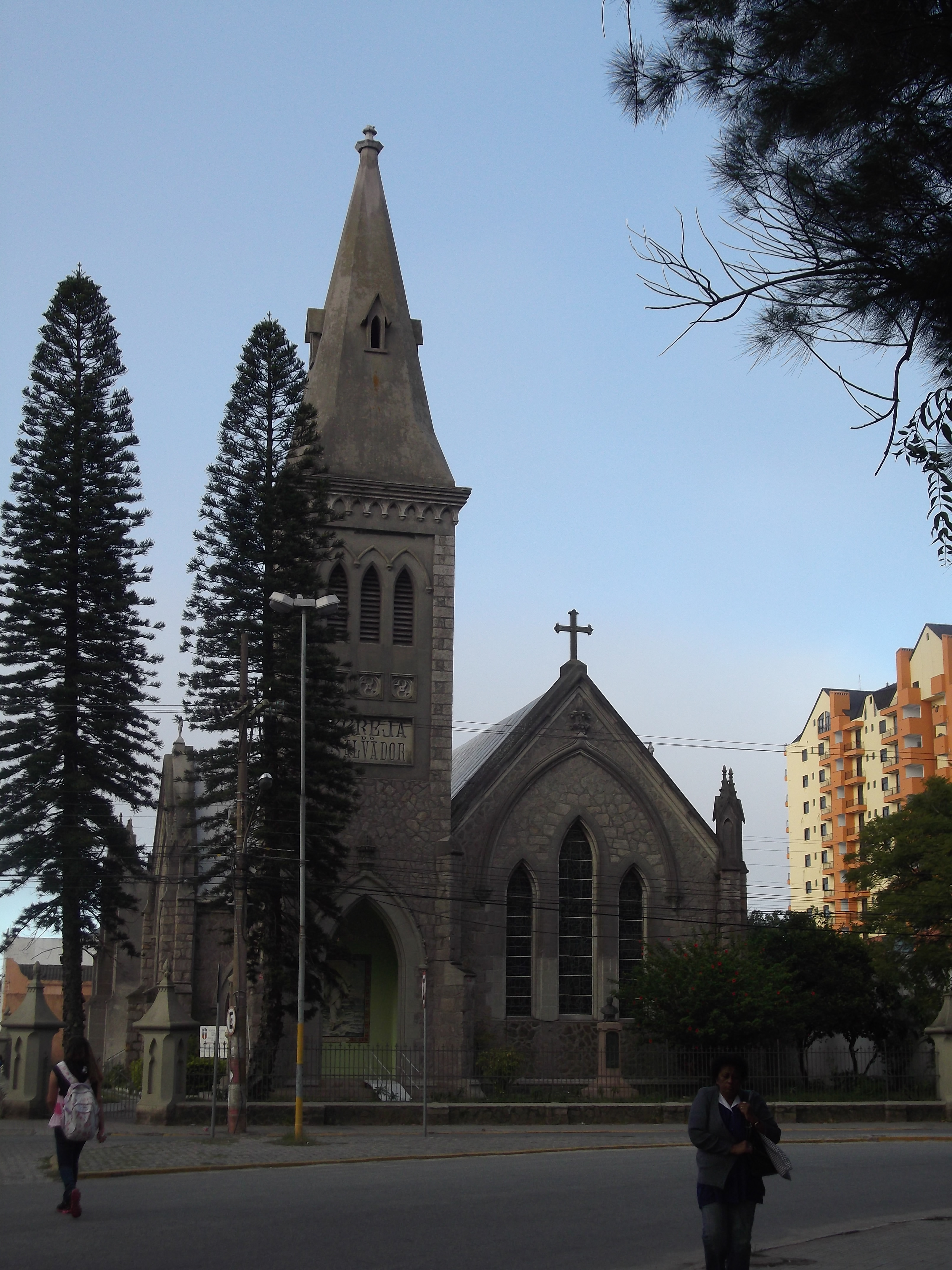 Anglican Church of the Savior, Rio Grande, Brazil